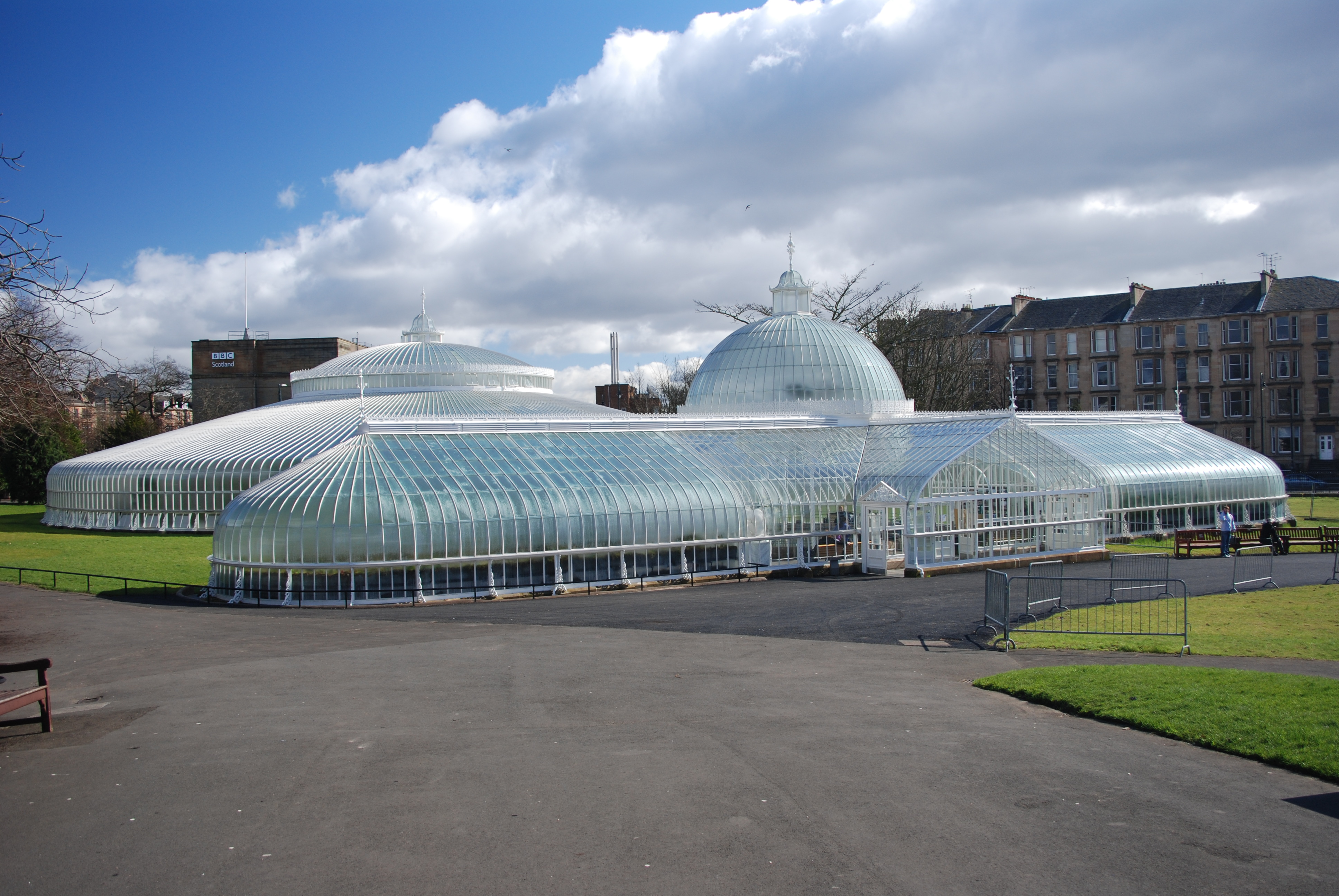 Reopened (2007) glasshouse